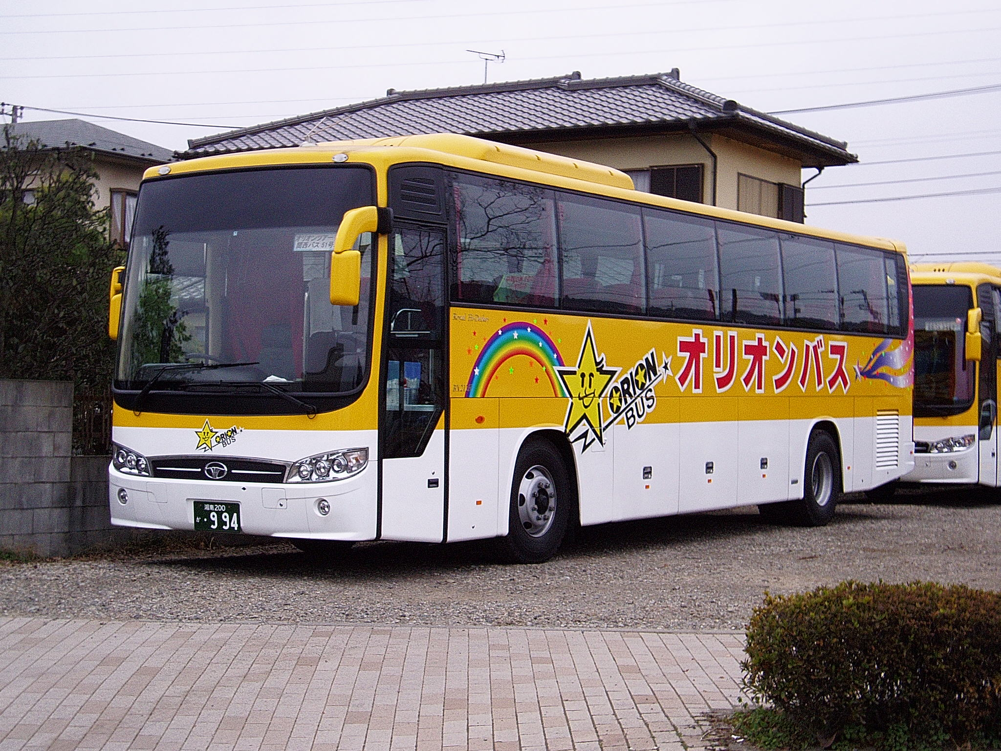 Daewoo Bus BX212 (Japan Version)